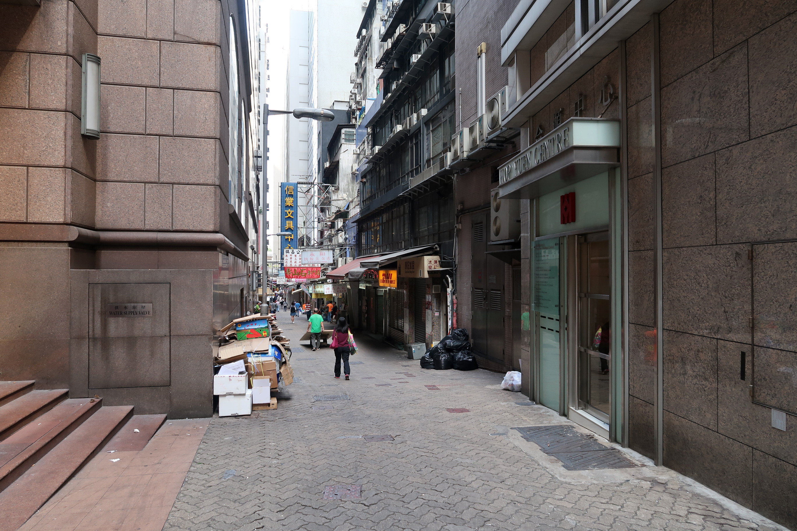 Wing Wo Street